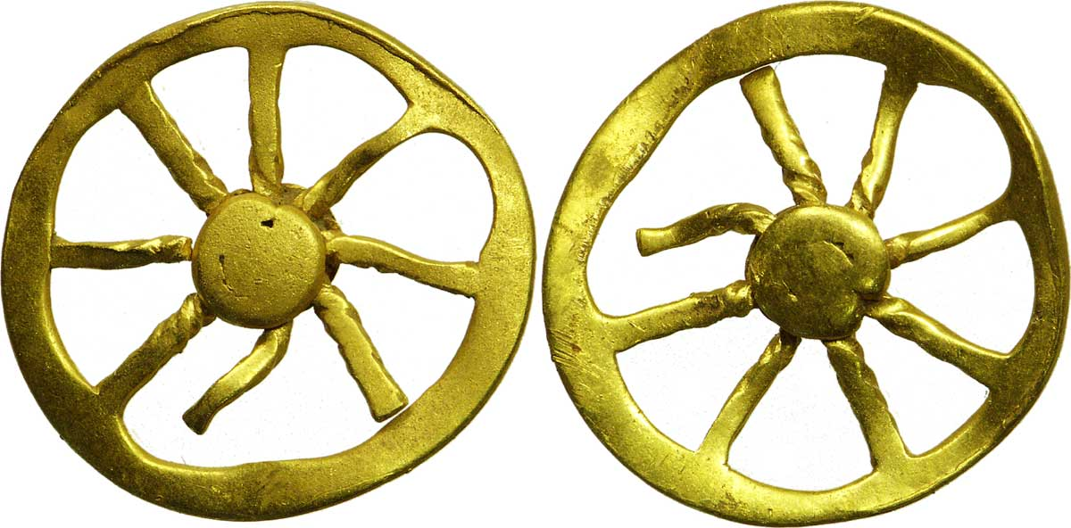 Rouelle en or à 8 rayons datée du premier siècle avant J-C